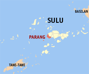 Map of the Sulu showing the location of Parang